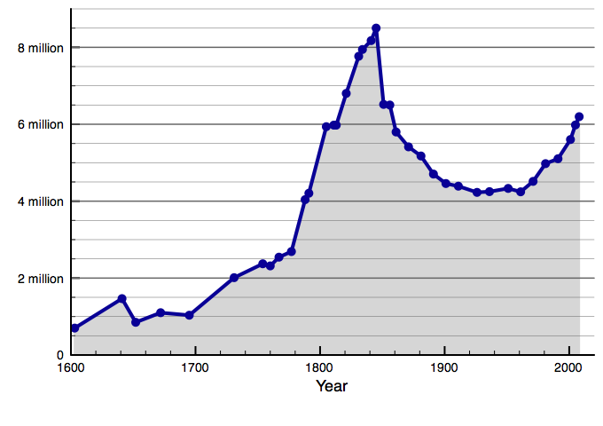 Population of the island of Ireland since 1600. See talk page for source details.